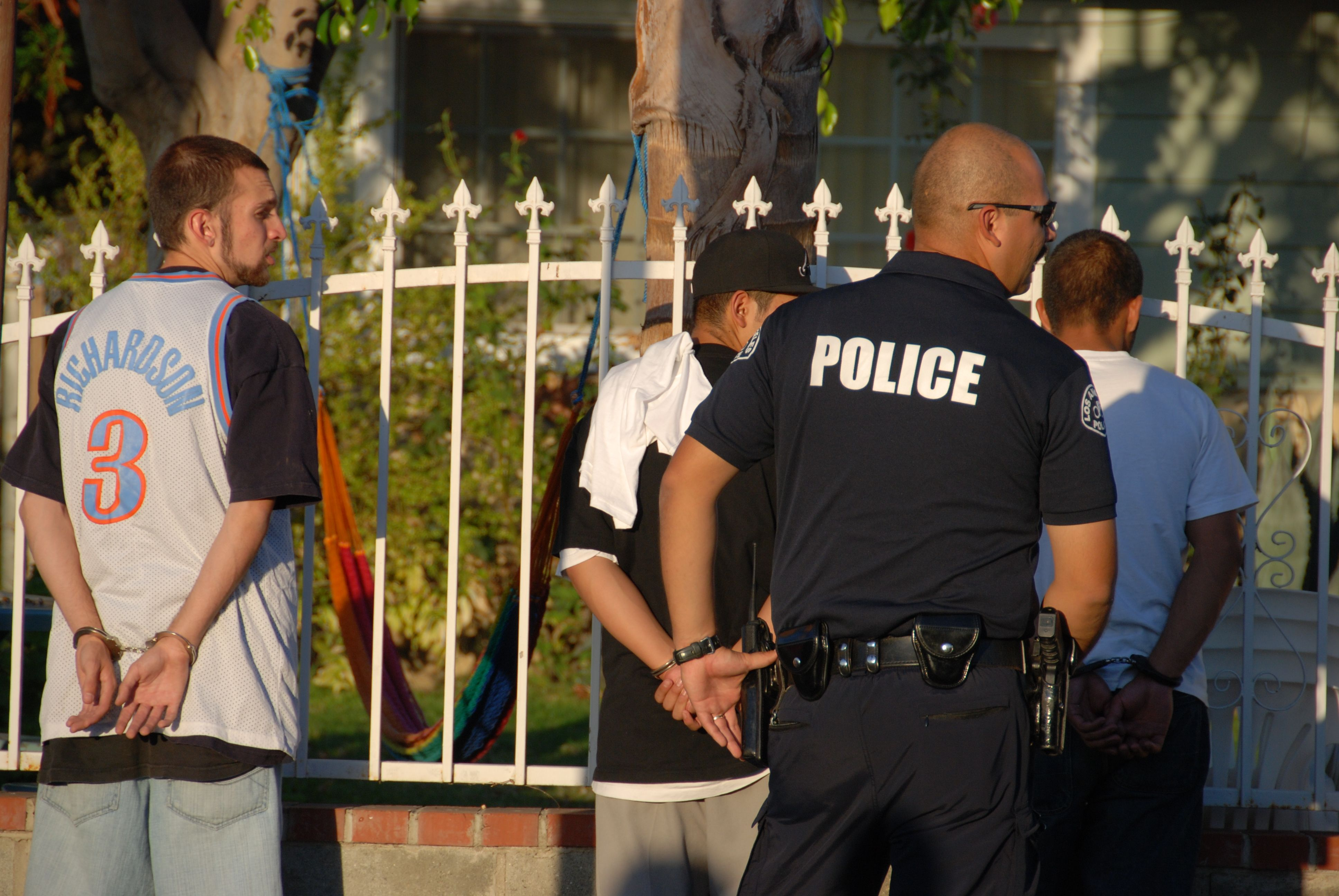 LAPD officer arresting suspected gang members.